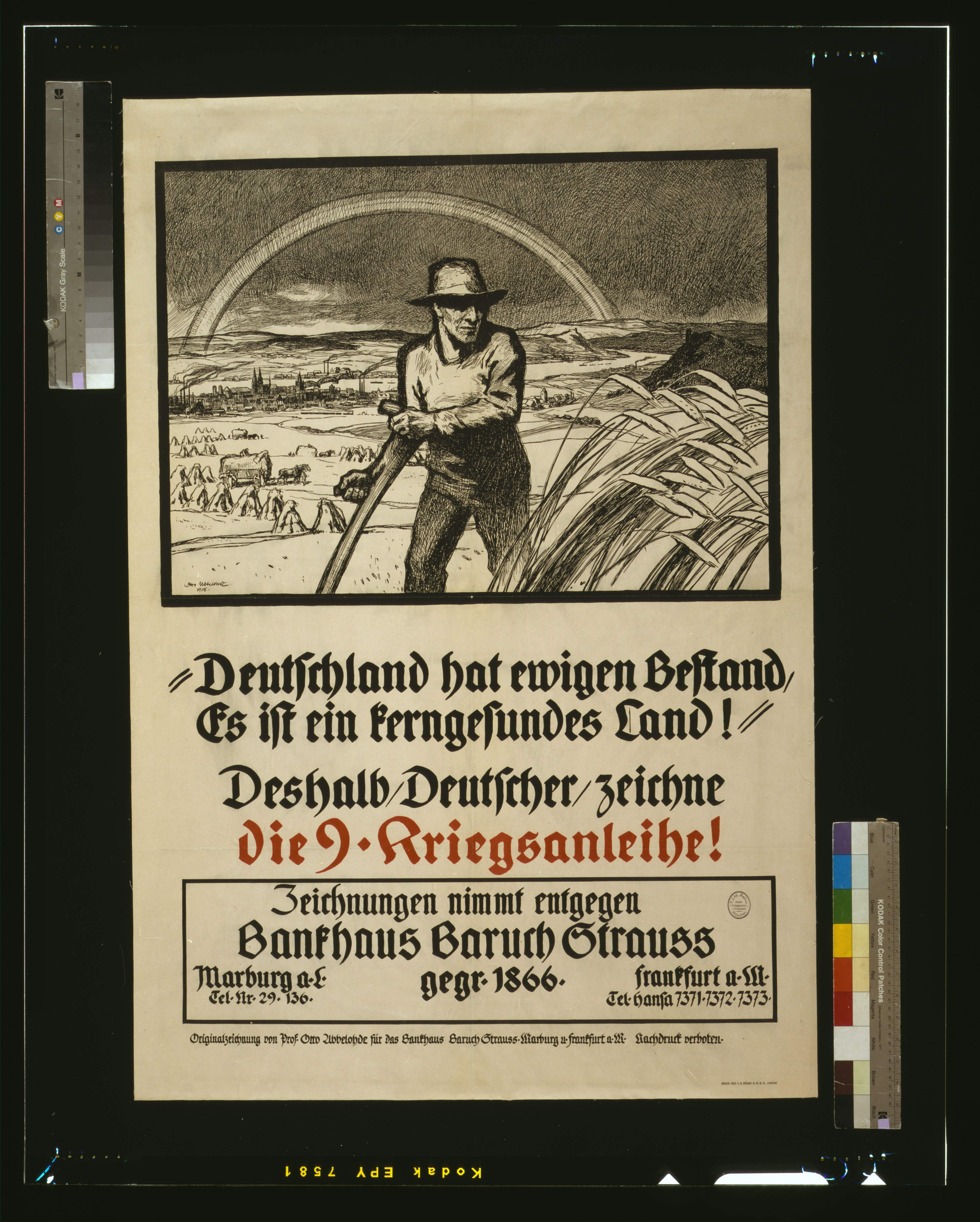 Title: Die 9. Kriegsanleihe! Abstract: Poster shows a farmer cutting grain with a scythe; in background, haystacks, a city, a river, factories, mountains and a rainbow. Text announces the 9th War Loan with a poem: Germany has perpetuity, it is a sound country, therefore, Germans, subscribe to the 9th War Loan. Subscriptions accepted at Bankhouse Baruch Strauss, Marburg an der Lahn and Frankfurt am Main. Physical description: 1 print (poster) : lithograph, color ; 116 x 80 cm. Notes: Forms part of: Rehse-Archiv für Zeitgeschichte und Publizistik.; Otto Ubbelohde.; Title from item.